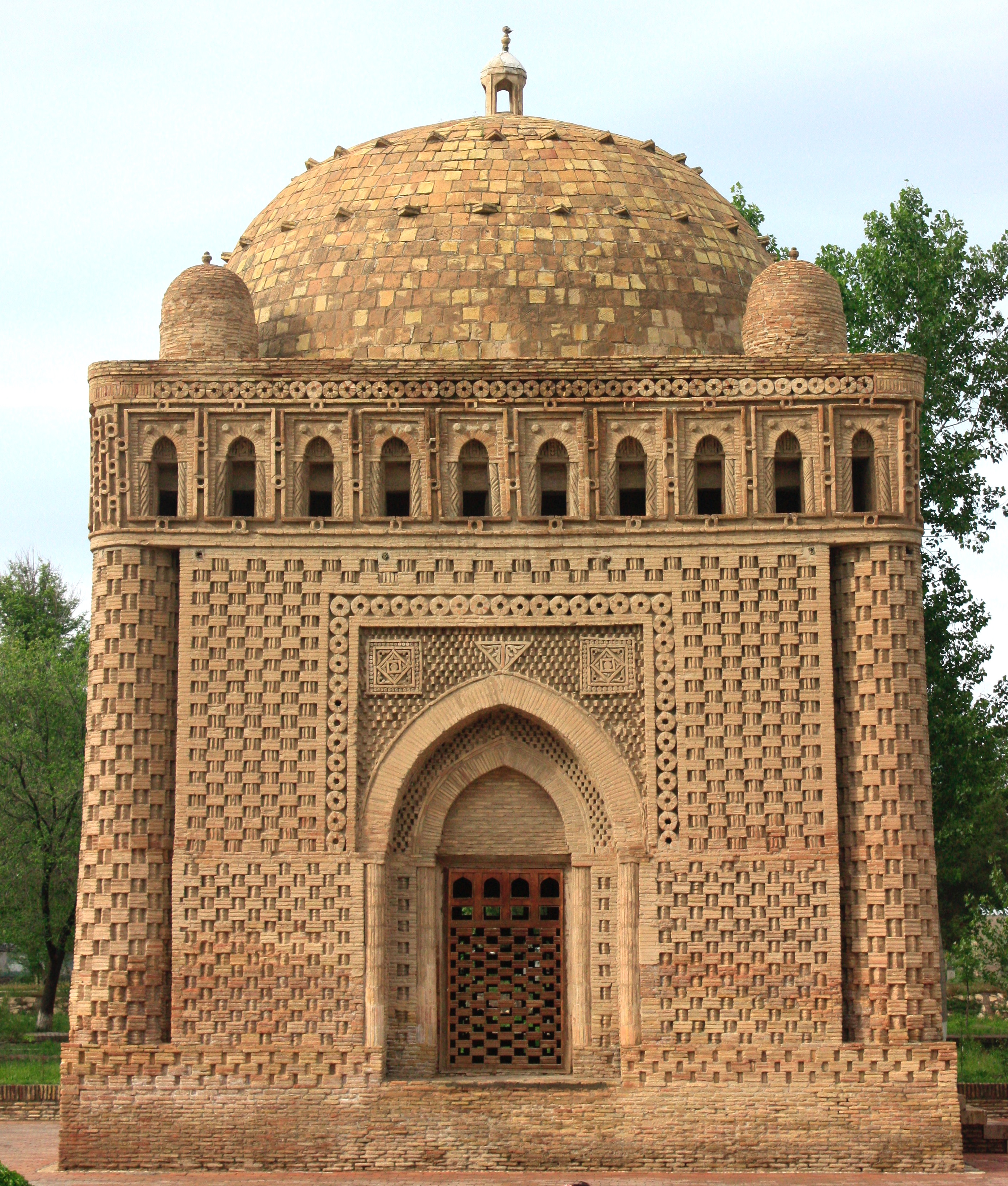 A view of the Shrine of Ismail Samani in Bukhara, Uzbekistan